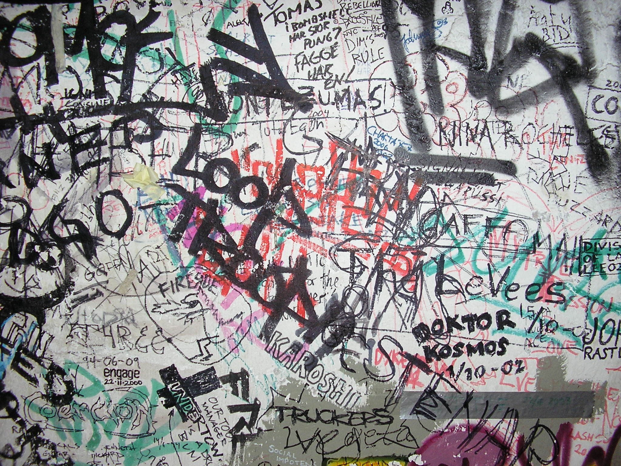 Around the stage at Kafé 44 many bands have left their signatures.